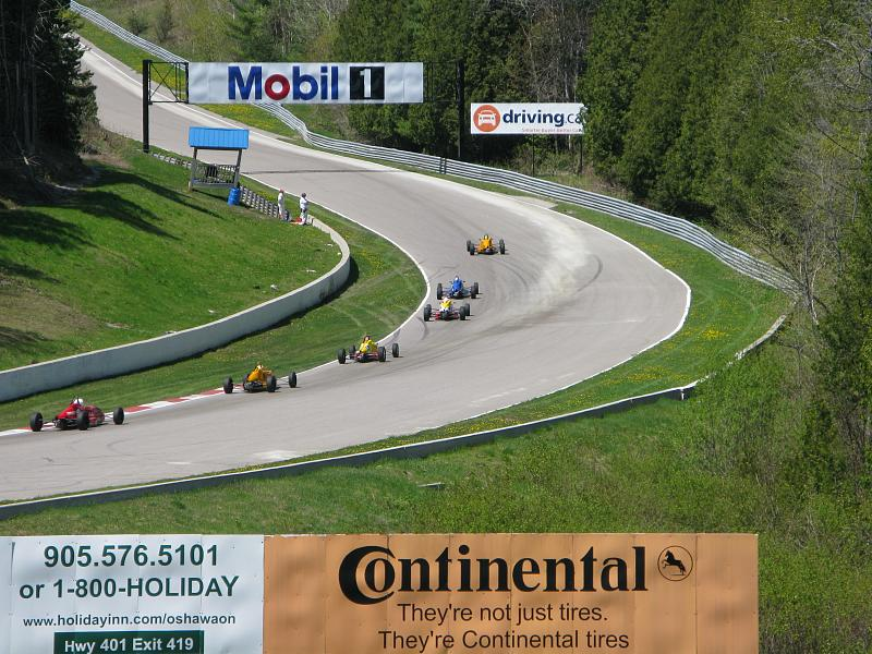 Cars of the Ontario Formula Ford series climbing the hill at Mosport